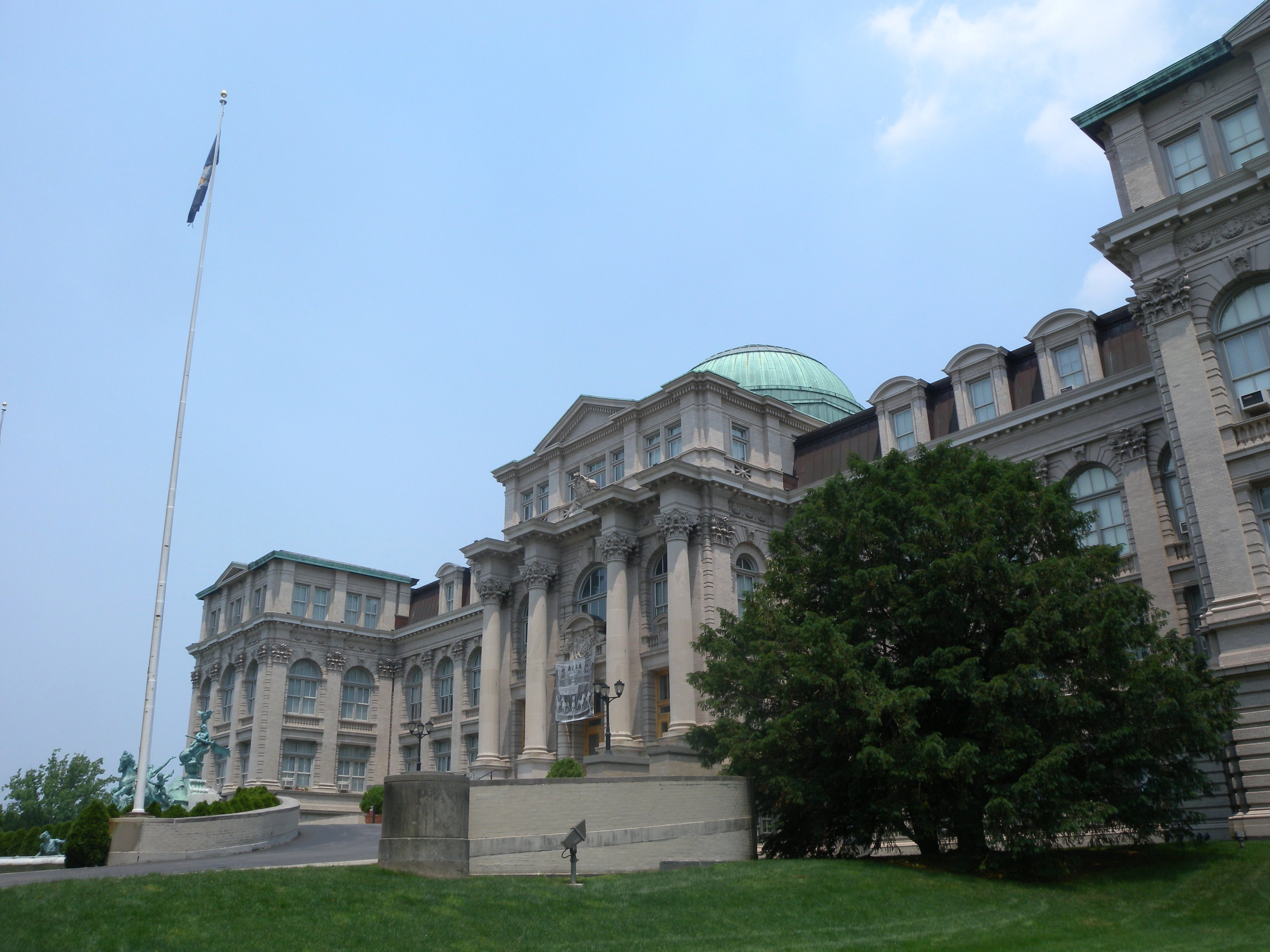 Looking north at headquarters on a hot hazy midday.